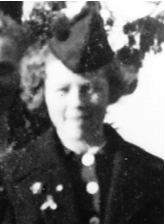 Monique de Bissy after her liberation from German Nazi camp enrolling in French army as nurse in August 1944.